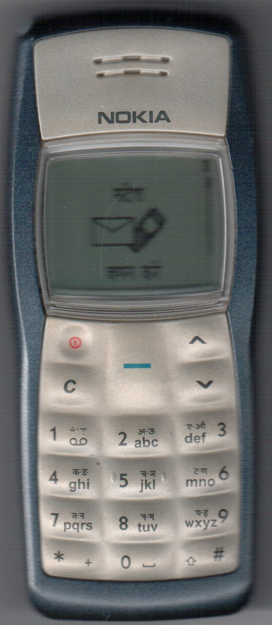 Nokia 1108 model with Hindi Keypad (introduced in the year 2005)